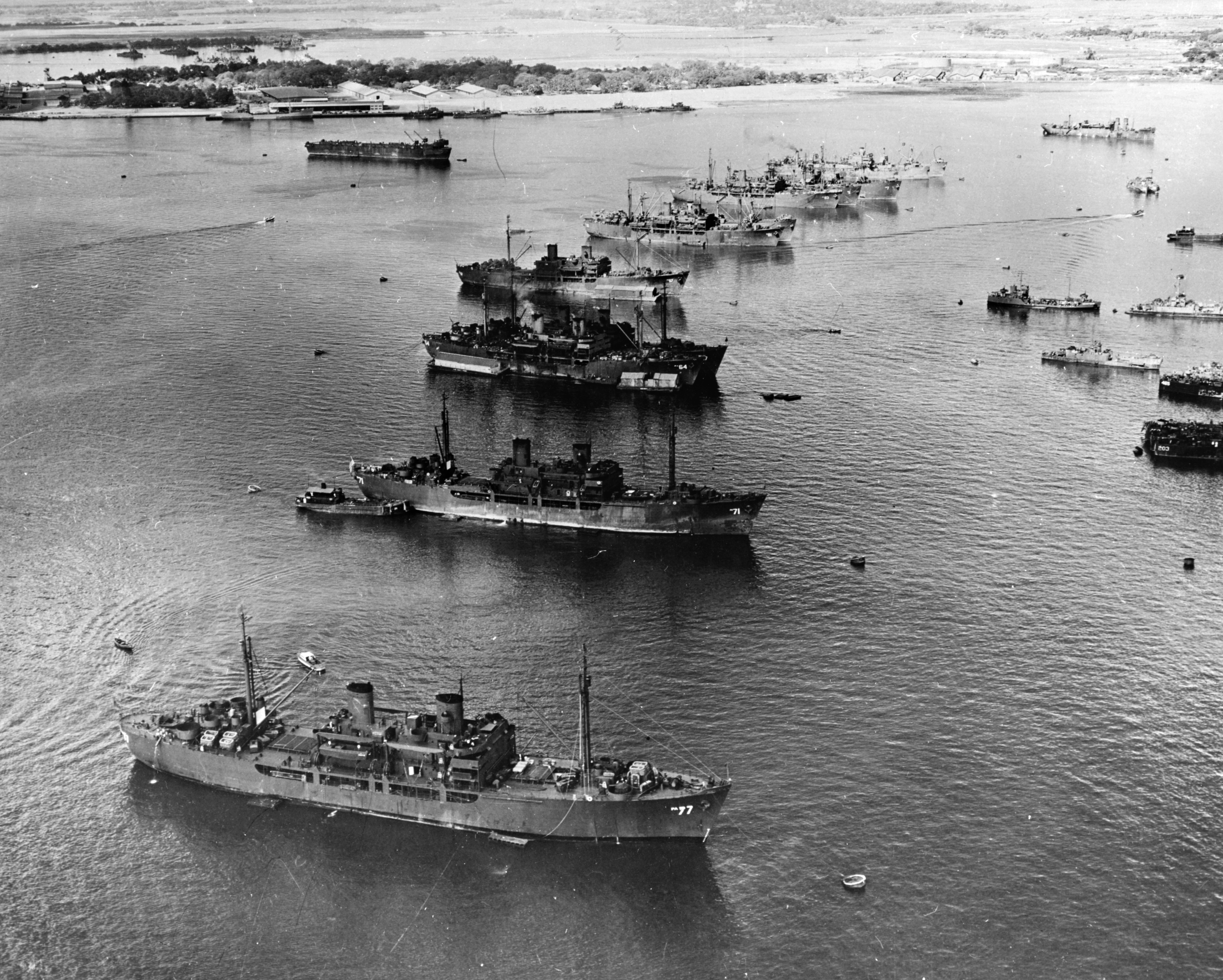 Operation Crossroads, 1946: Prospective target ships and support ships at Pearl Harbor in a photo released on 27 February 1946. Ships present from front to rear include the Gilliam-class attack transports USS Crittenden (APA-77), Catron (APA-71), Bracken (APA-64), Burleson (APA-67), Gilliam (APA-57), Fallon (APA-81), one unidentified ship, USS Fillmore (APA-83), the Acubens-class general stores issue ships USS Kochab (AKS-6) and Luna (AKS-7), an unidentified tanker and a Liberty ship. Identifiable on the right are the medium landing ships LSM-203 and LSM-465. Further in the background are a floating drydock and a merchant ship hulk with unidentified fittings forward of the bridge.